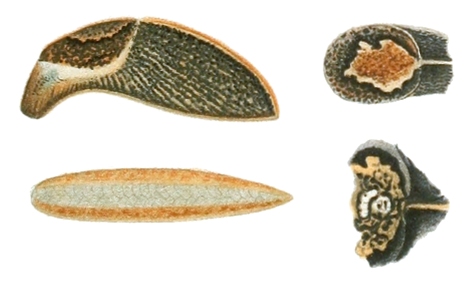 colored drawing of slug Milax caucasicus